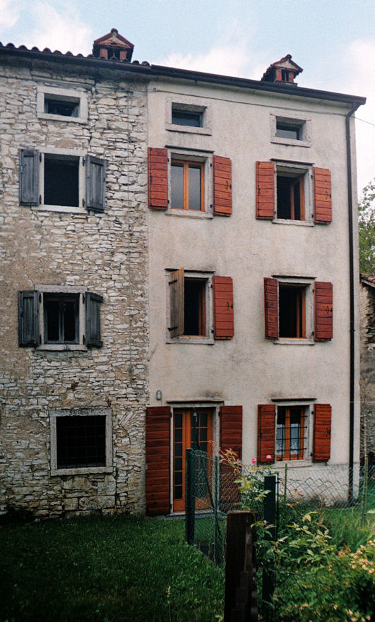 Sonia Gandhi's birthplace : the house on the right of the picture